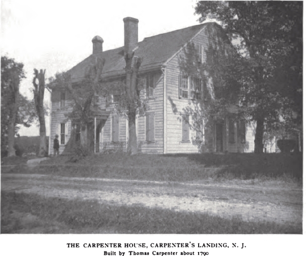 Thomas Carpenter House built about 1790 at Carpenter's Landing, New Jersey per original caption. But, house started by or prior to 1773.